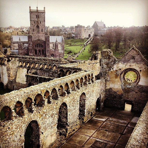 Cadw's St Davids Bishops Palace.